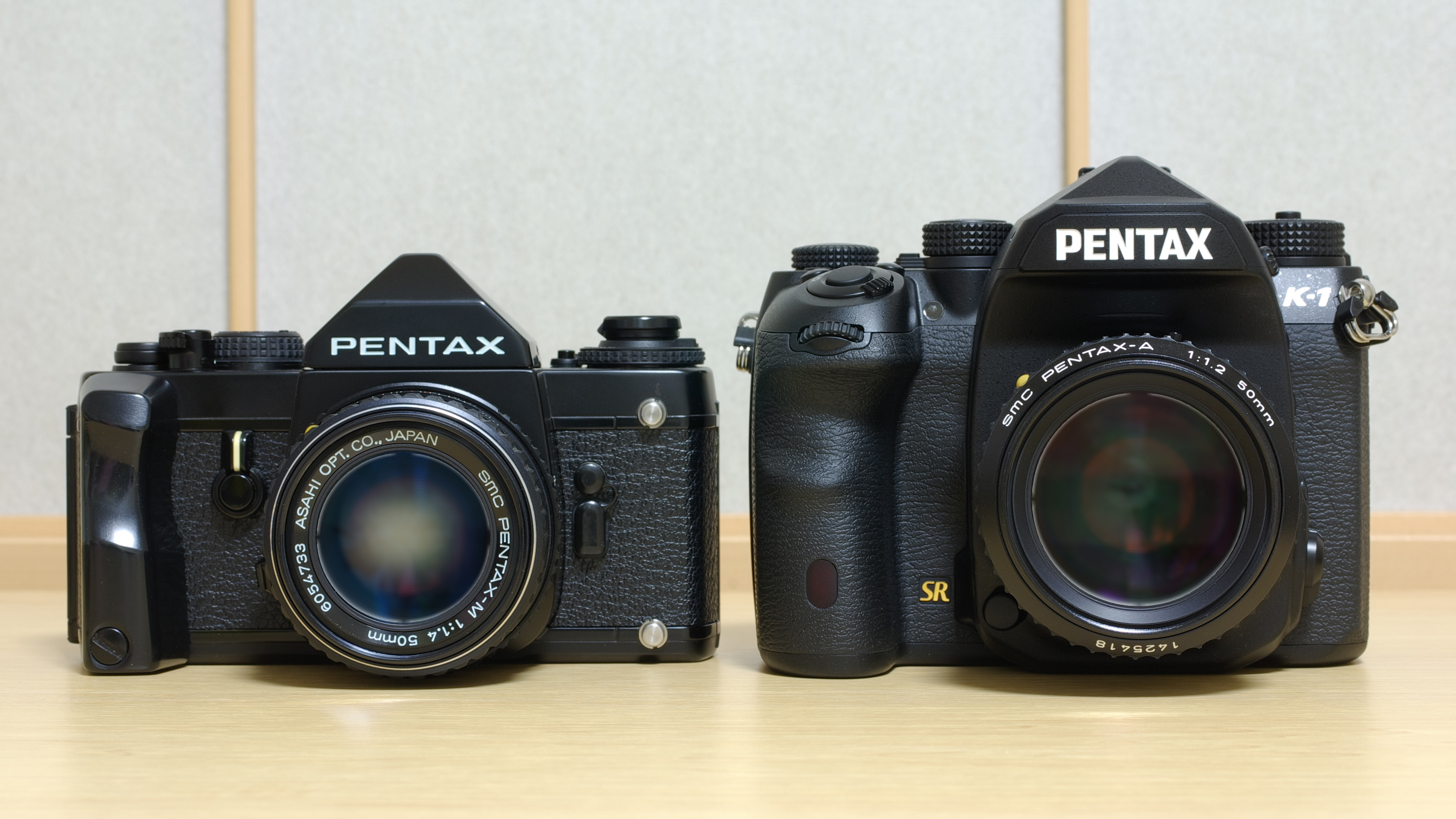 PENTAX LX and PENTAX K-1